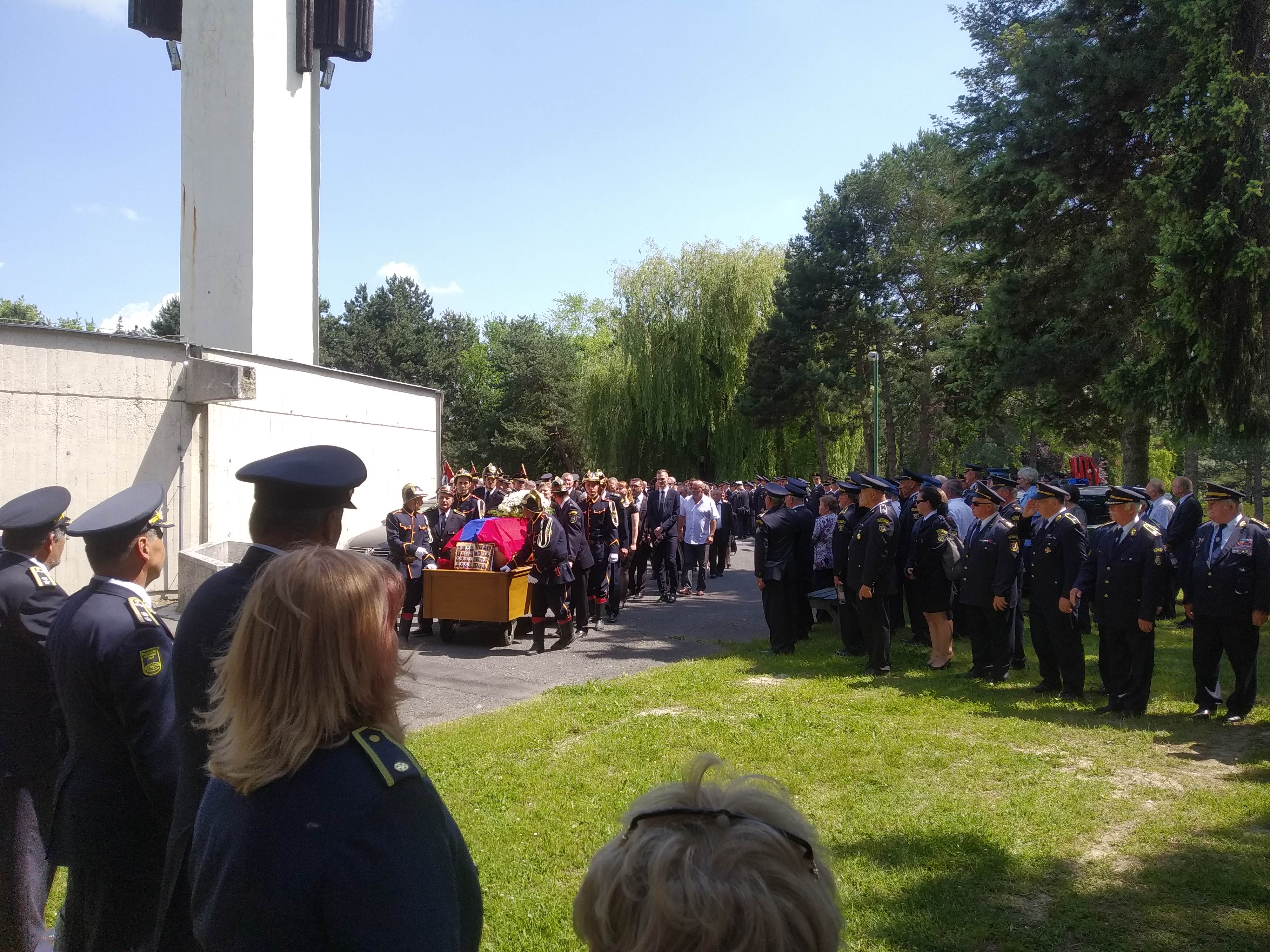 The last farewell with important firefighter